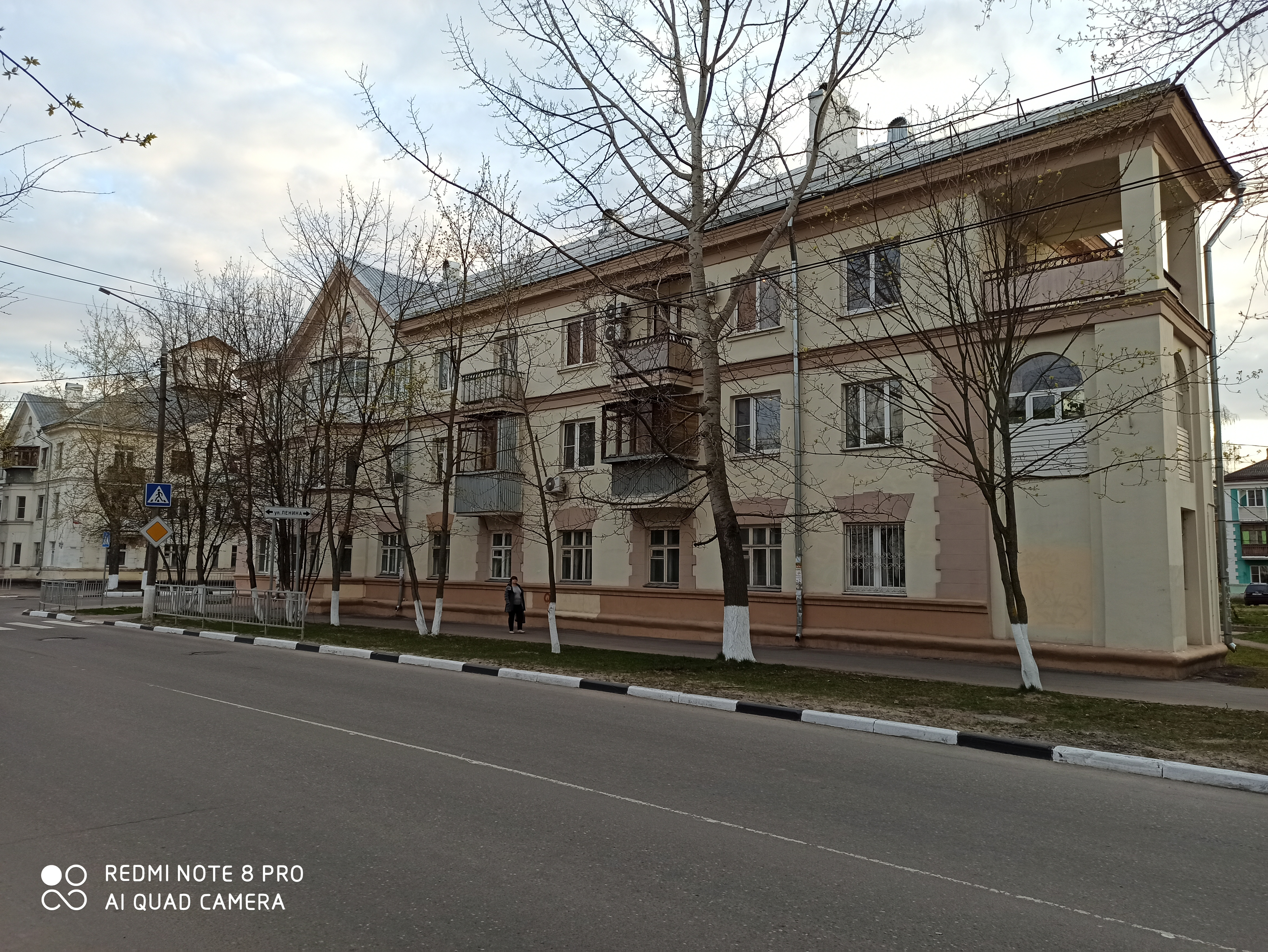 21 Central street, Fryazino, Moscow Oblast, Russia (2th may 2020)